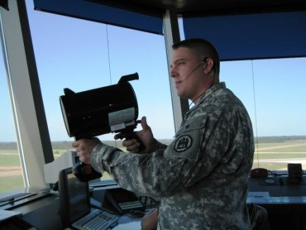 Spc. Brian Lane of Metairie, La., uses a light gun to signal a ground vehicle on the airport taxiway